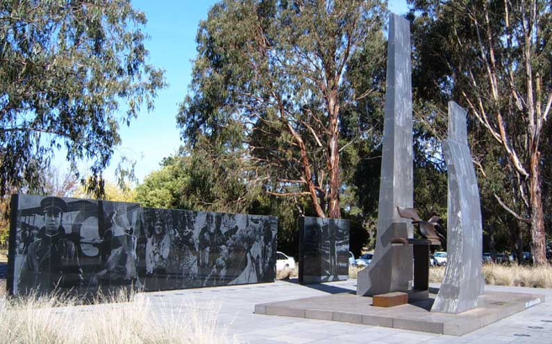 Royal Australian Air Force Memorial on ANZAC Parade, the principal ceremonial and memorial avenue of Canberra, the Capital city of Australia.